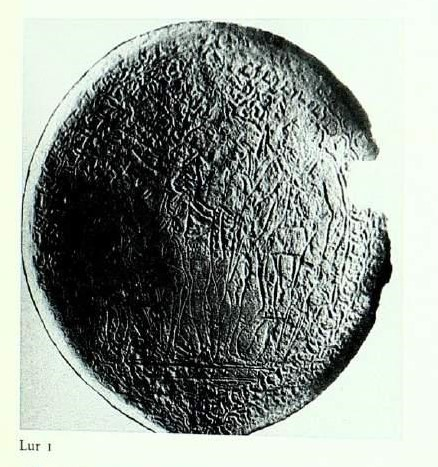 An ancient Etruscan bronze mirror depicting a scene between Tinia, Lur and others.